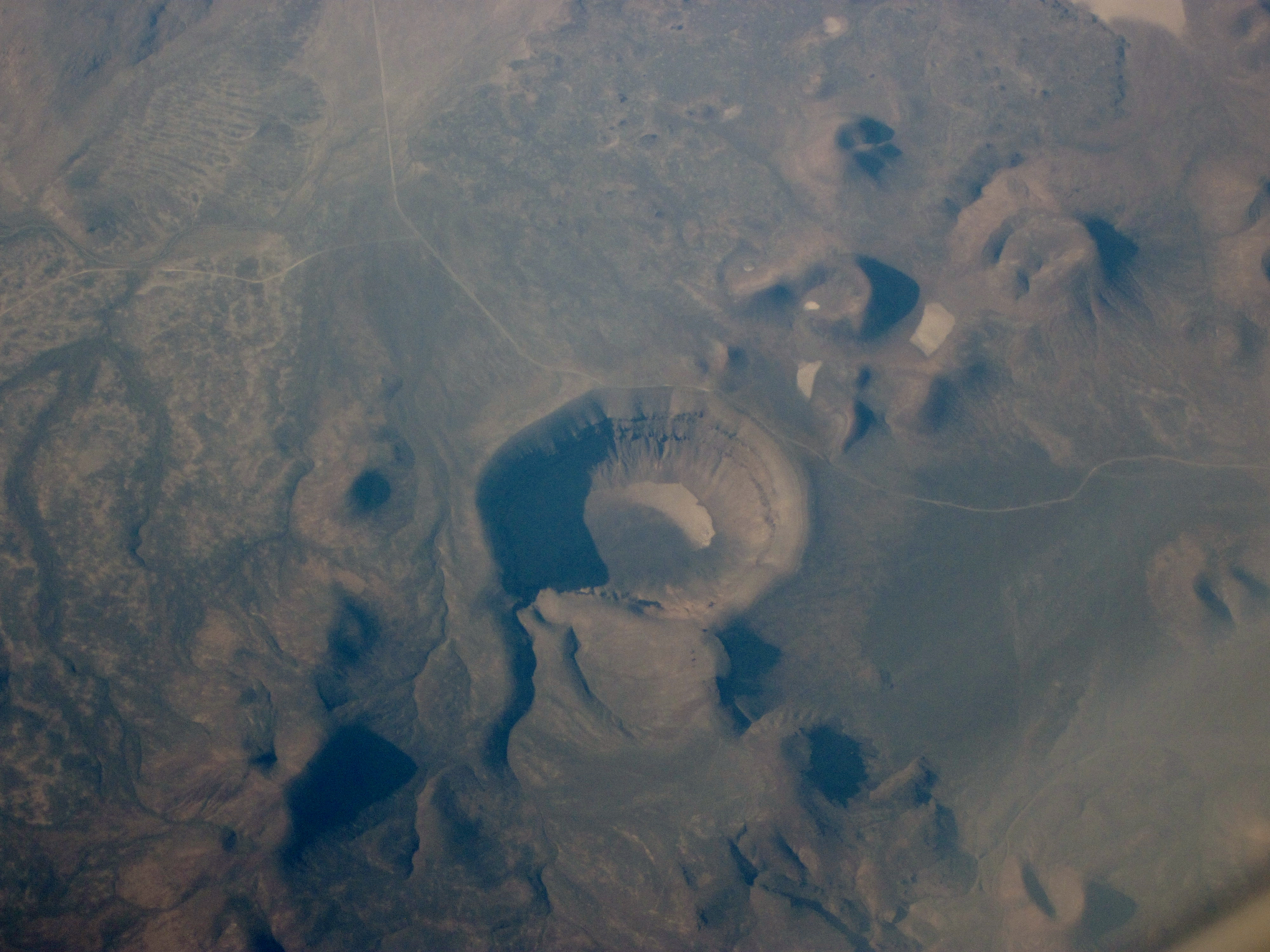 Aerial shot of Lunar Crater in Nevada on July 16, 2013.